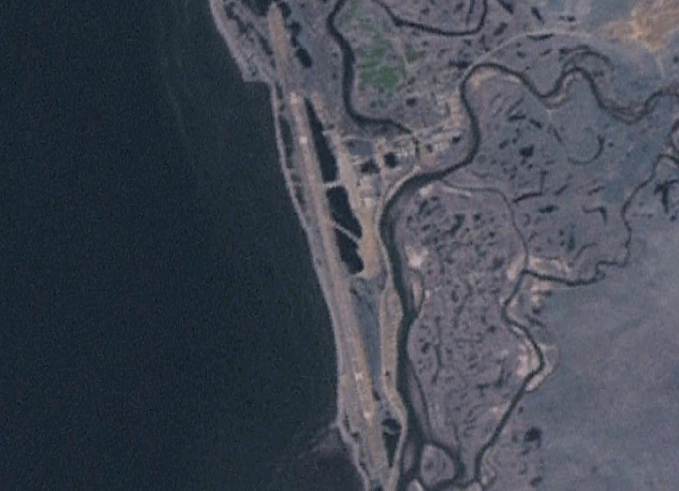 Satellite image of Pevek Airport in Pevek, Russia